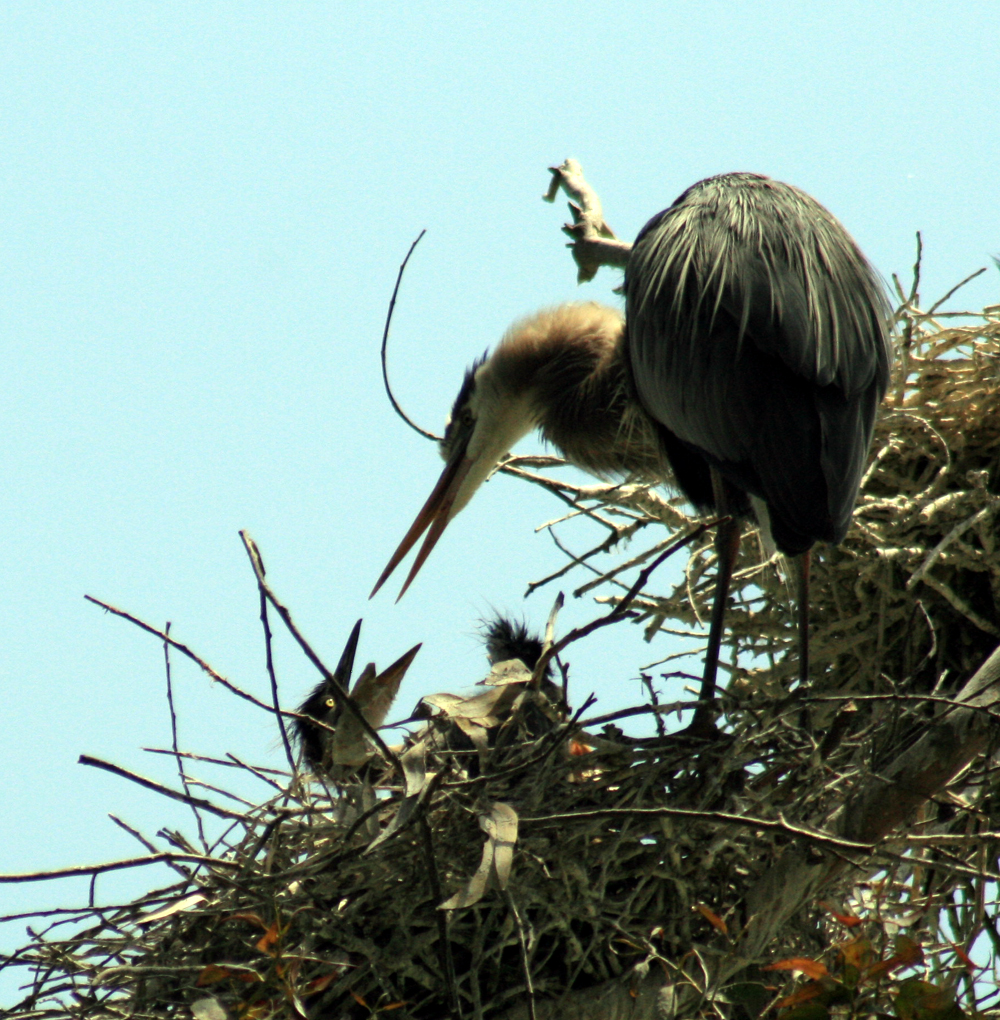 The nest of Great blue herons, Ardea herodias. San Francisco, California